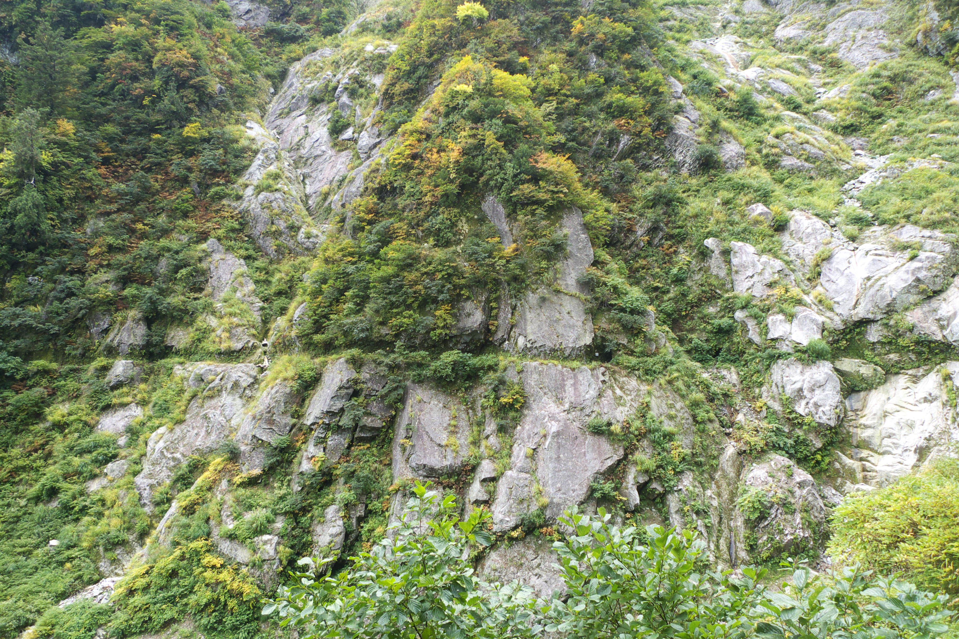 The Suihei Hodo trail in Kurobe City, Toyama Prefecture, Japan, near Shiai-dani valley